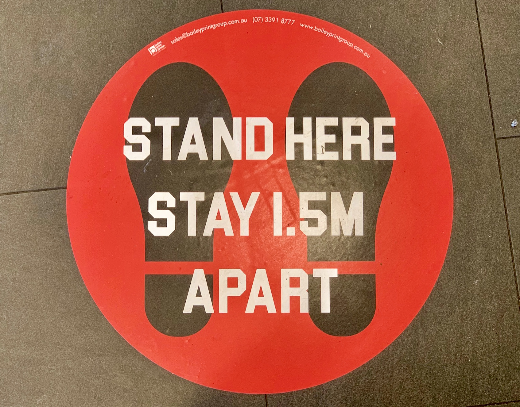 Signs for social distancing at shops during the COVID-19 pandemic in Brisbane, Australia